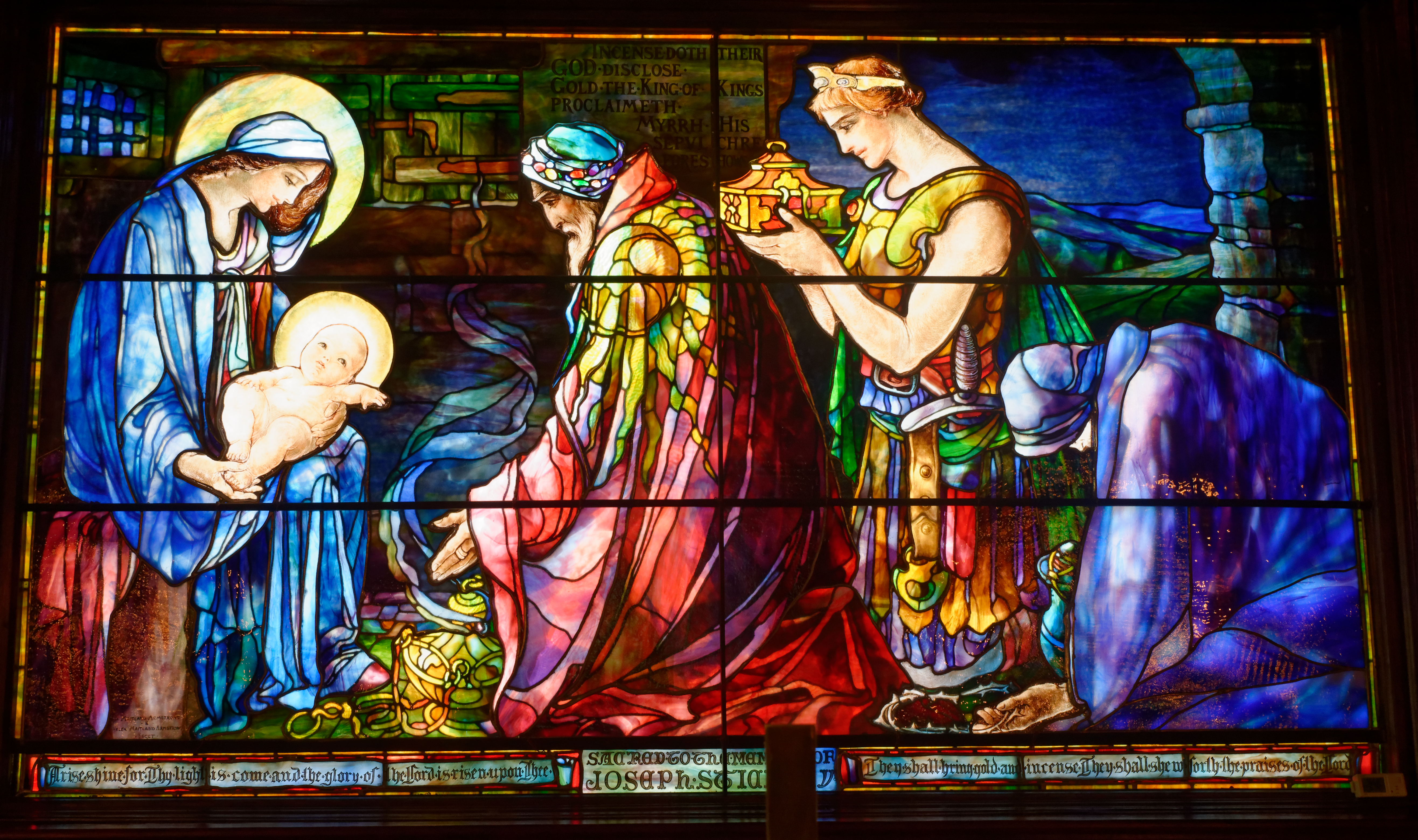 Faith Chapel, Jekyll Island, Georgia, U.S. "The Adoration of the Christ Child" by Maitland Armstrong A contributing property to Jekyll Island Historic District .